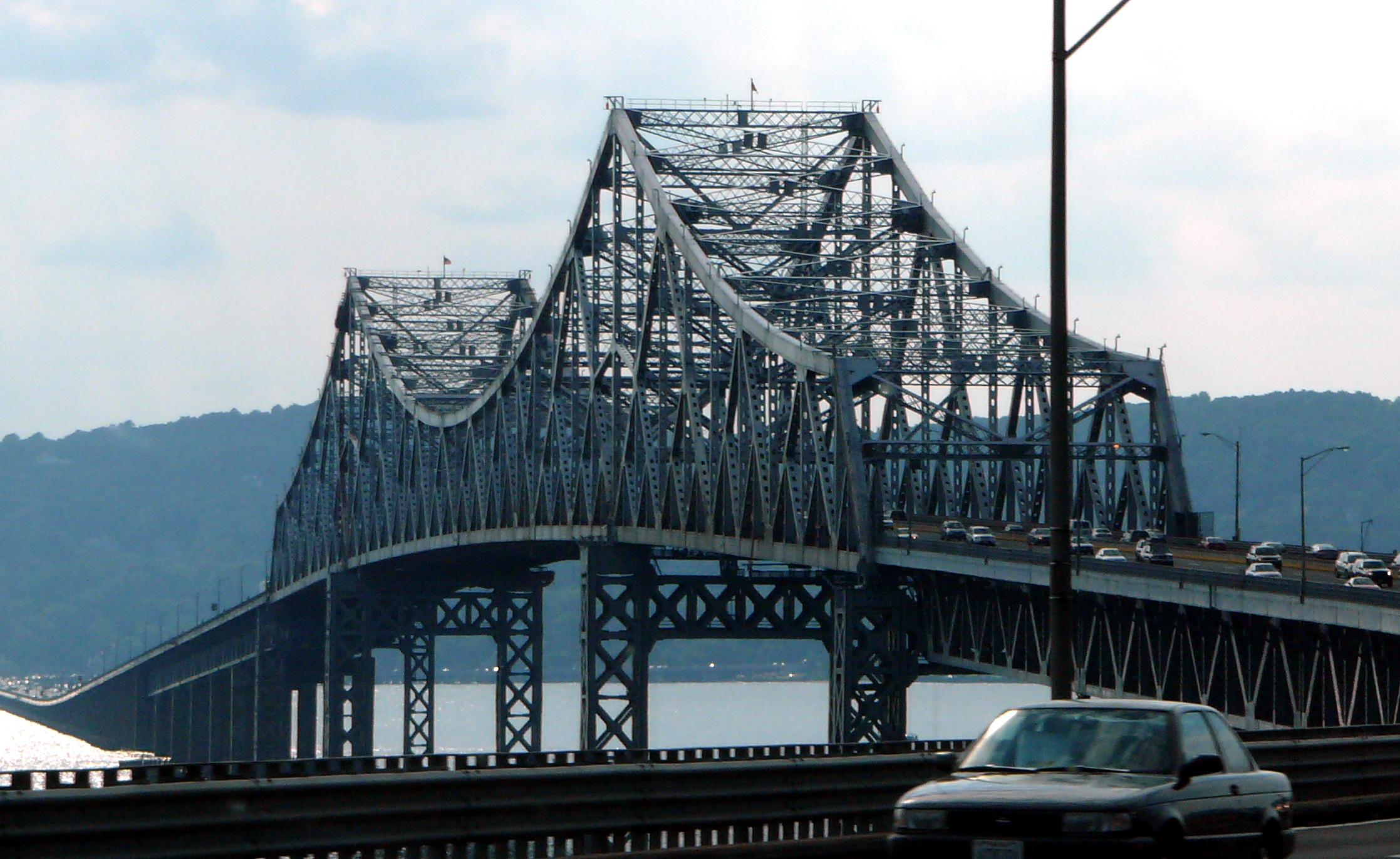 The Tappan Zee Bridge as seen while driving onto it from the Westchester side.